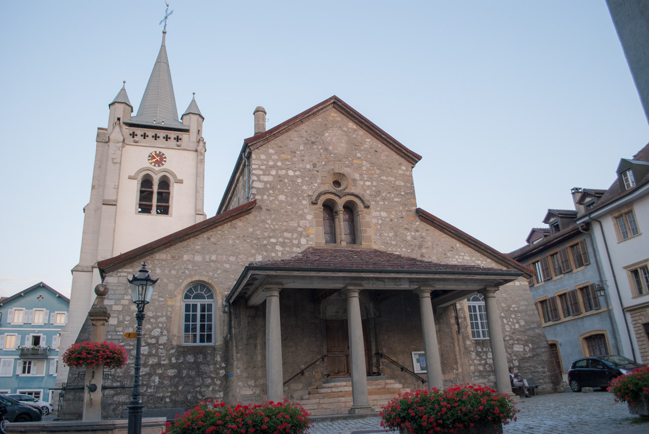 Reformierte Kirche Saint-Pierre et Saint-Paul